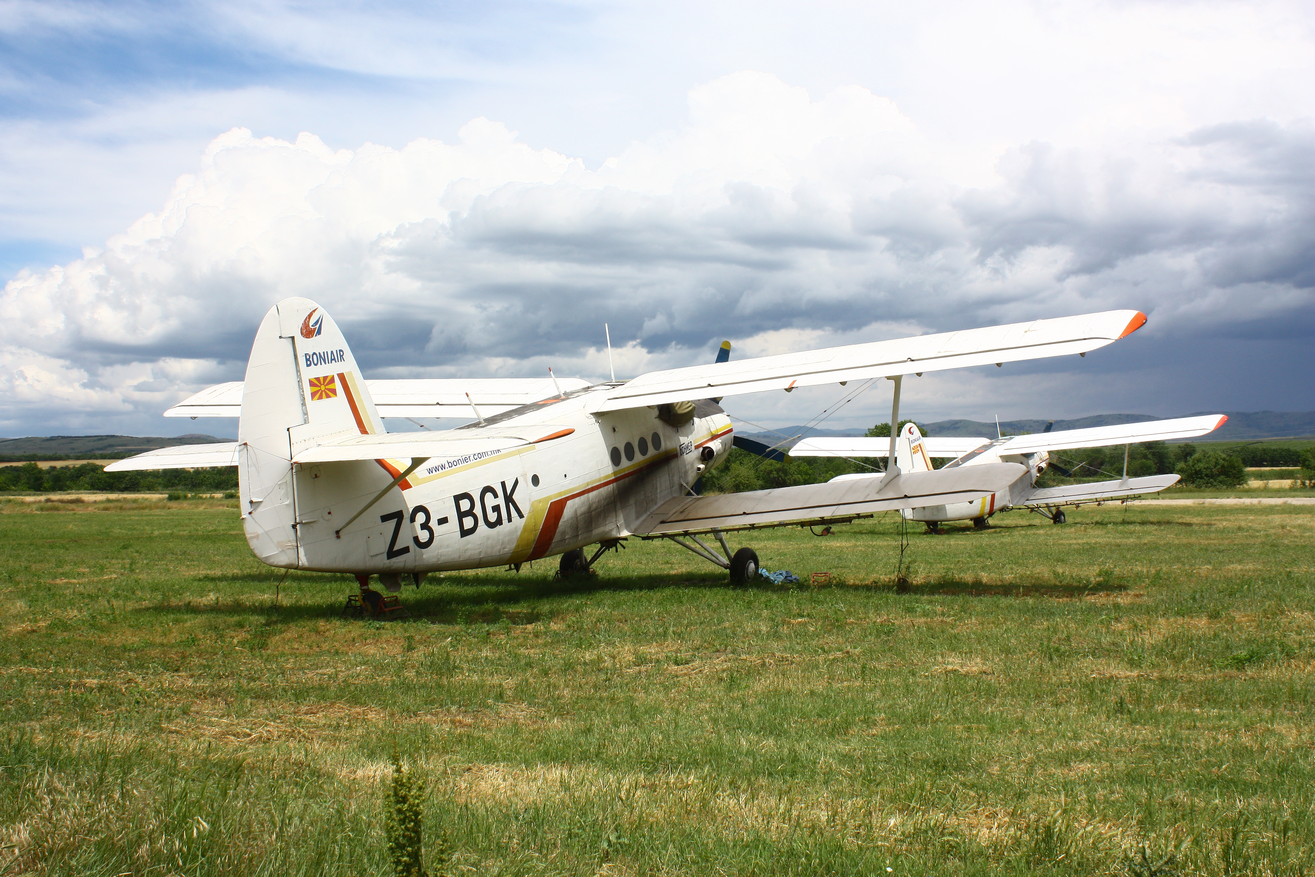 Suševo Sport Airport near Štip, Macedonia